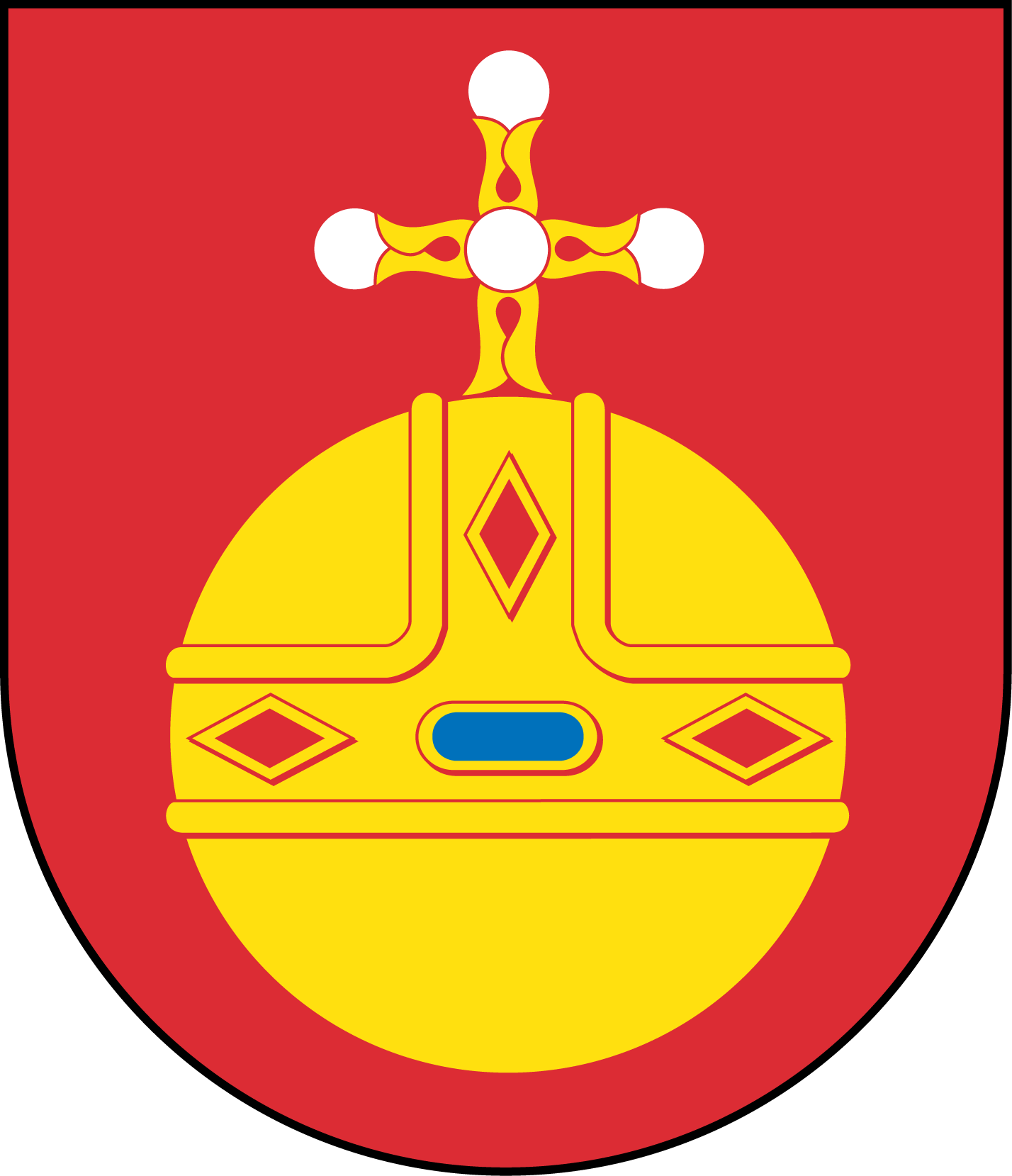 Coat of arms of the province of Uppland, Sweden. Painted by Vladimir A. Sagerlund when he was the heraldic artist at the National Archives of Sweden (Riksarkivet). This representation of a coat of arms is potentially different from the one used by the armiger (municipality or organisation) in question. = ⇑“Sable, a lionrampant or” This coat of arms was drawn based on its blazon which – being a written description – is free from copyright. Any illustration conforming with the blazon of the arms is considered to be heraldically correct. Thus several different artistic interpretations of the same coat of arms can exist. The design officially used by the armiger is likely protected by copyright, in which case it cannot be used here.Individual representations of a coat of arms, drawn from a blazon, may have a copyright belonging to the artist, but are not necessarily derivative works. Further information: Commons:Coats of arms and Template:Coa blazon